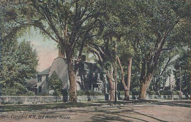 The Walker-Woodman House, Concord, NH; from a c. 1908 postcard. Built between 1733-1735 by the Rev. Timothy Walker, it is the oldest house in the city.